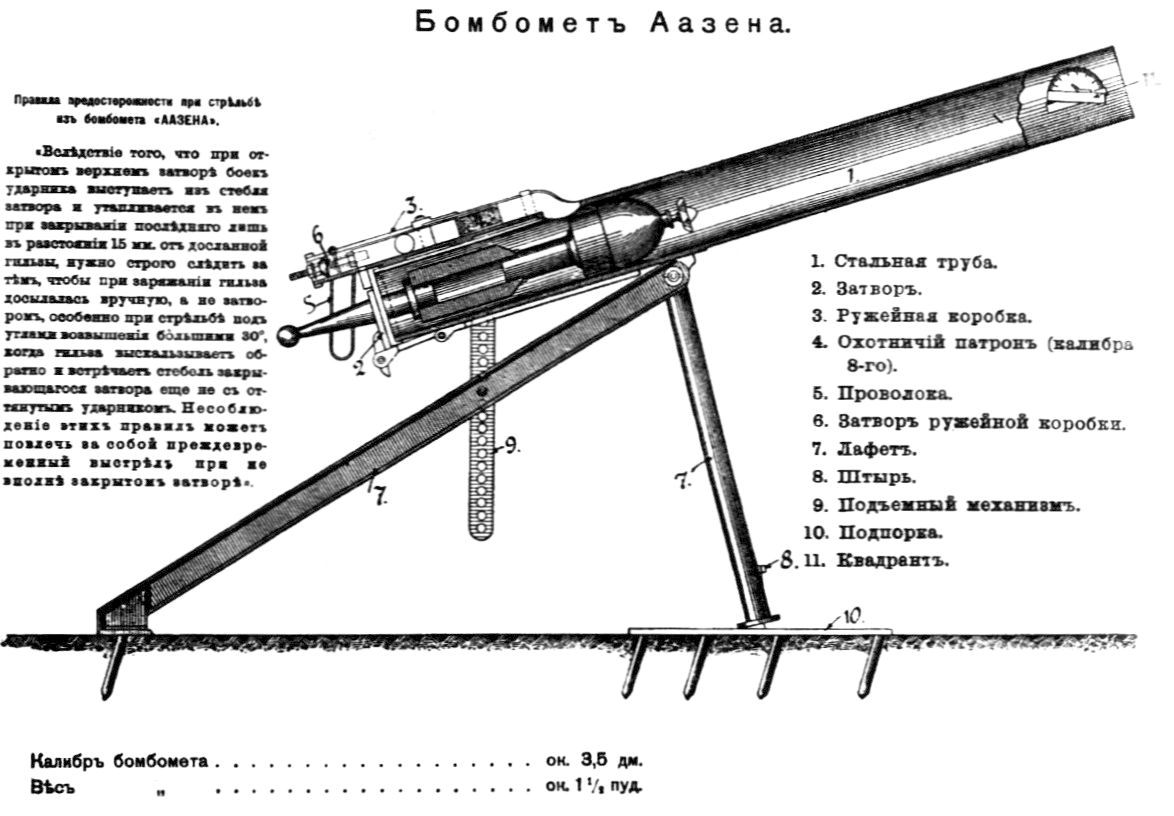 Diagram of Russian Aasen mortar of World War I.